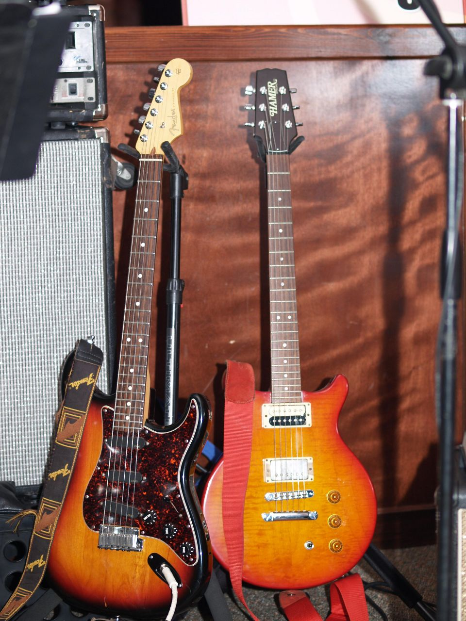 bob's guitars Fender Stratocaster Hamer Studio Custom